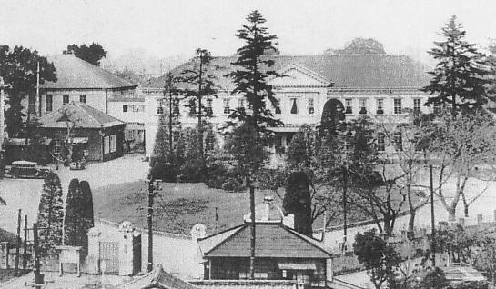 Saitama Prefectural Office in the Taisho era